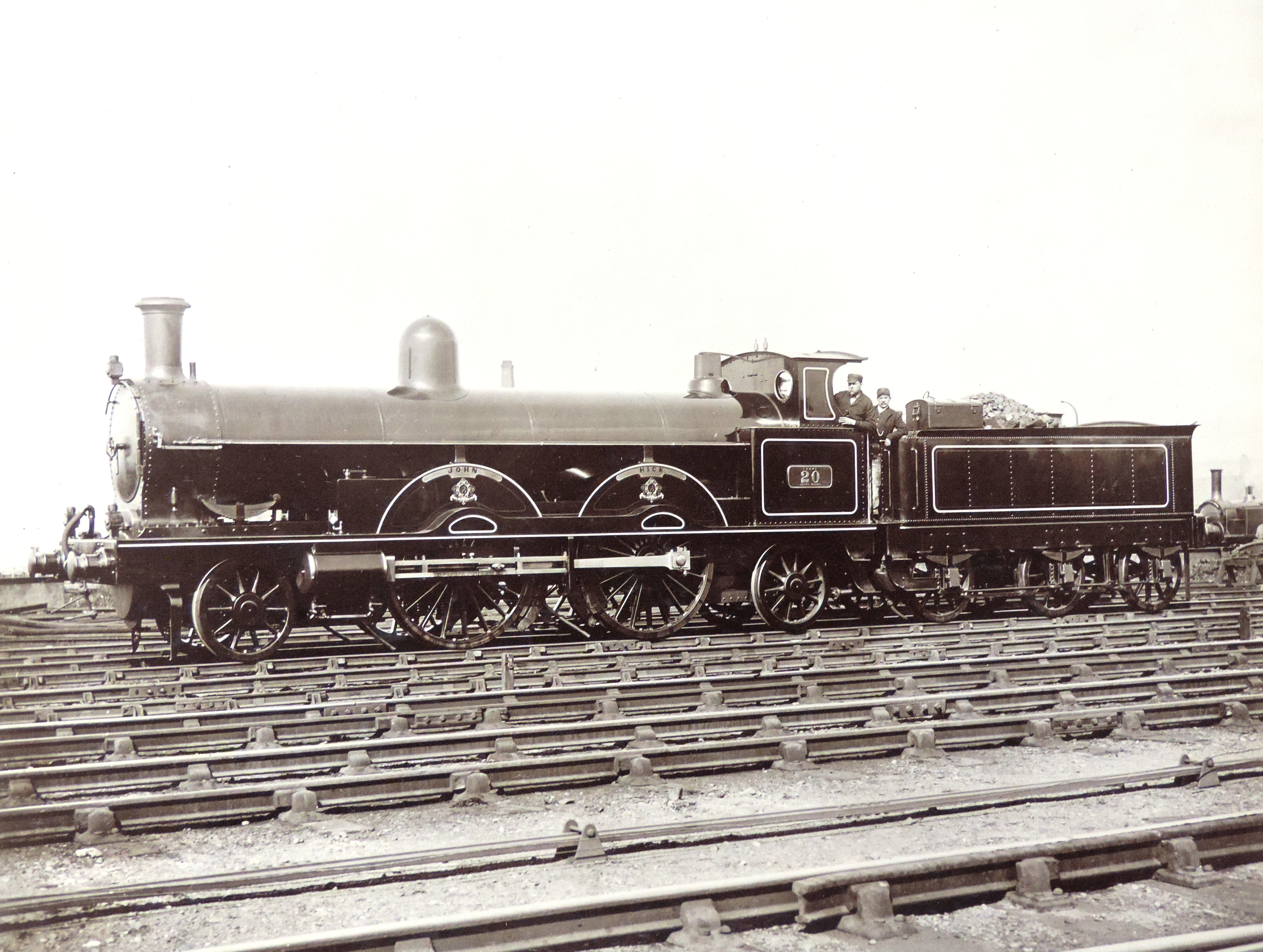 London and North Western Railway No. 20 John Hick; lead engine of the John Hick class 2-2-2-2 locomotives. Built at the railway’s Crewe Works (no. 3505 of February 1894). Scrapped April 1910.